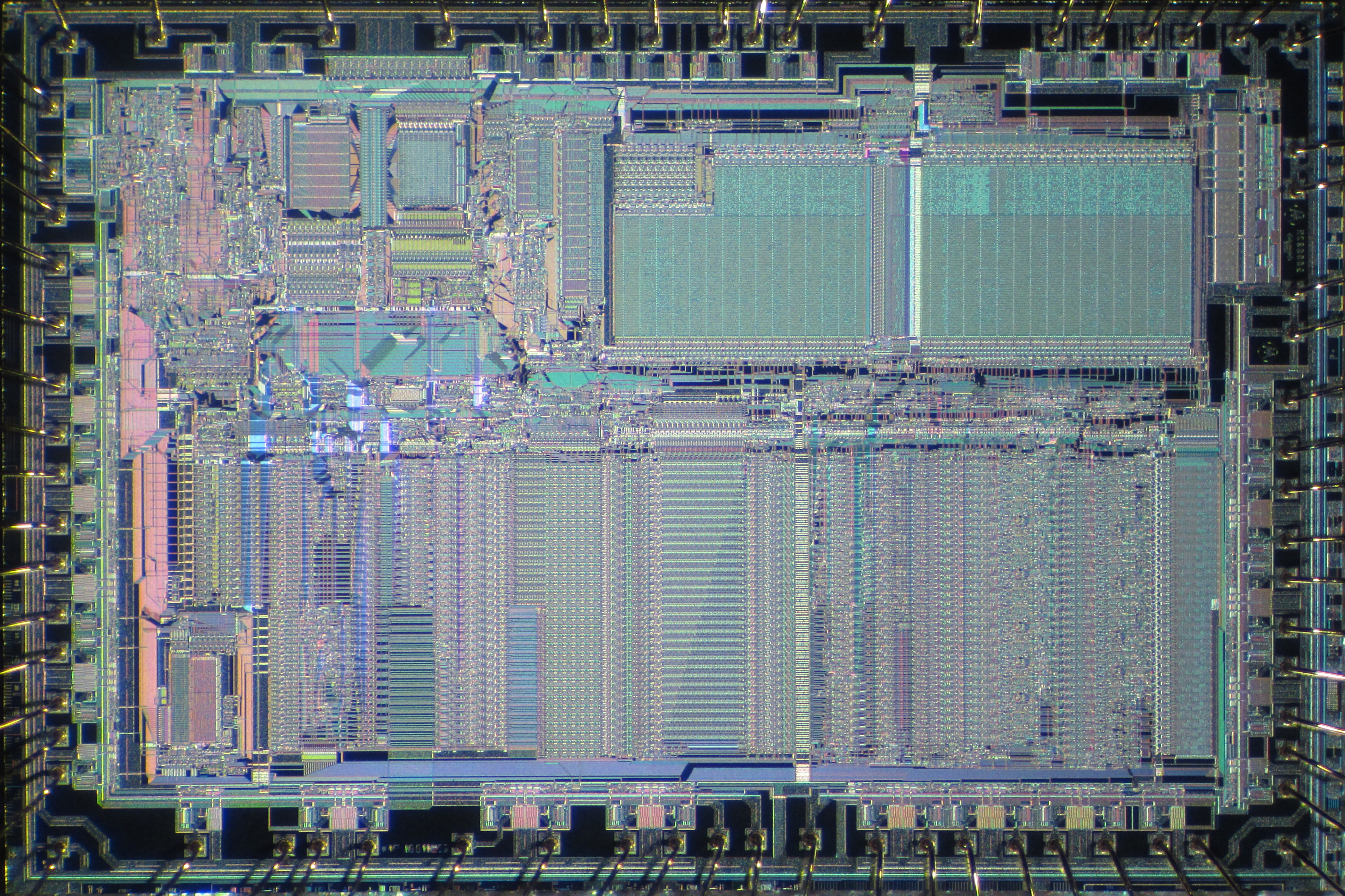 Die shot of Motorola 68882 math coprocessor (MC68882RC16A, 4B96M mask).